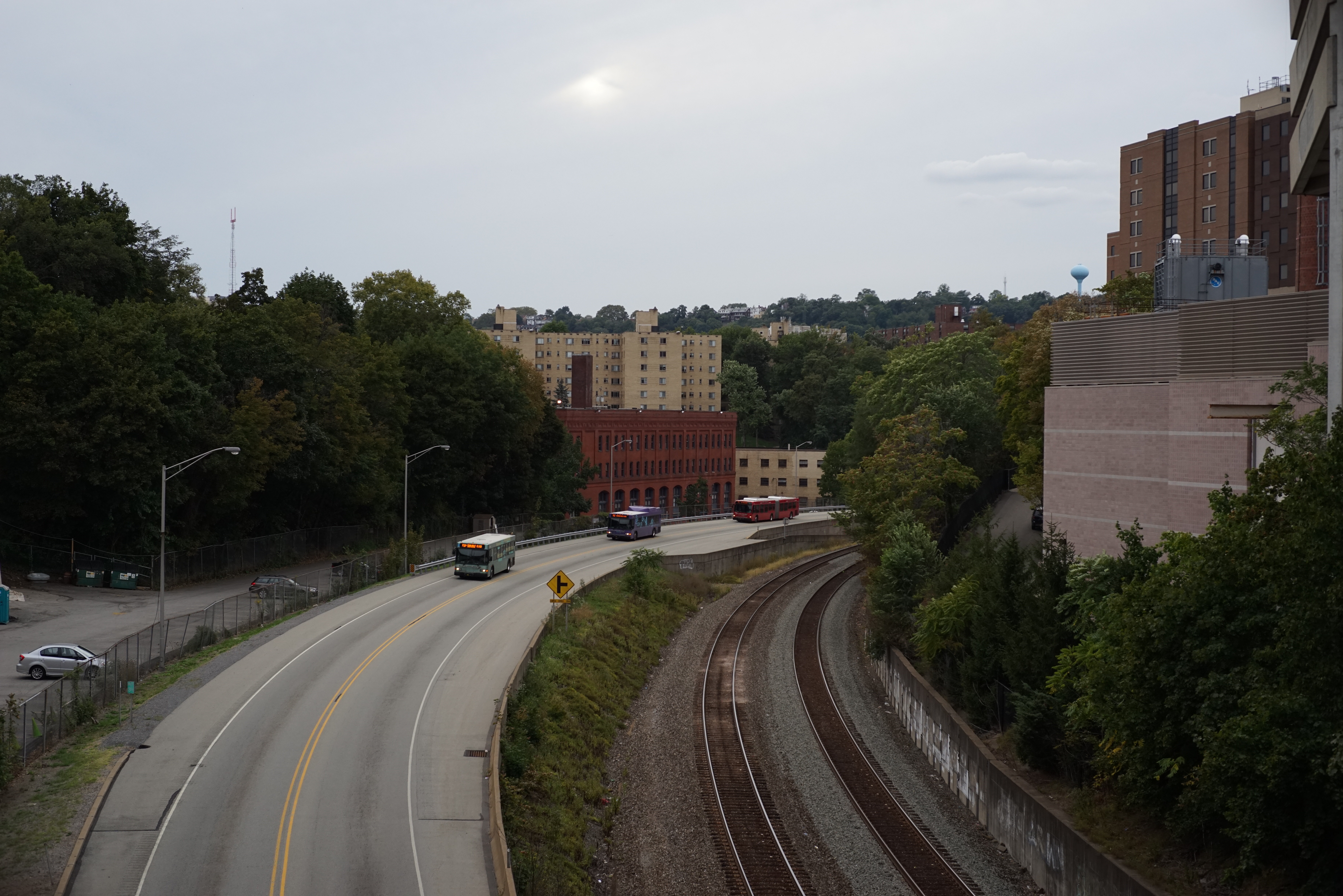 The M.L.K. Jr. East Busway near UPMC Shadyside, Pittsburgh.